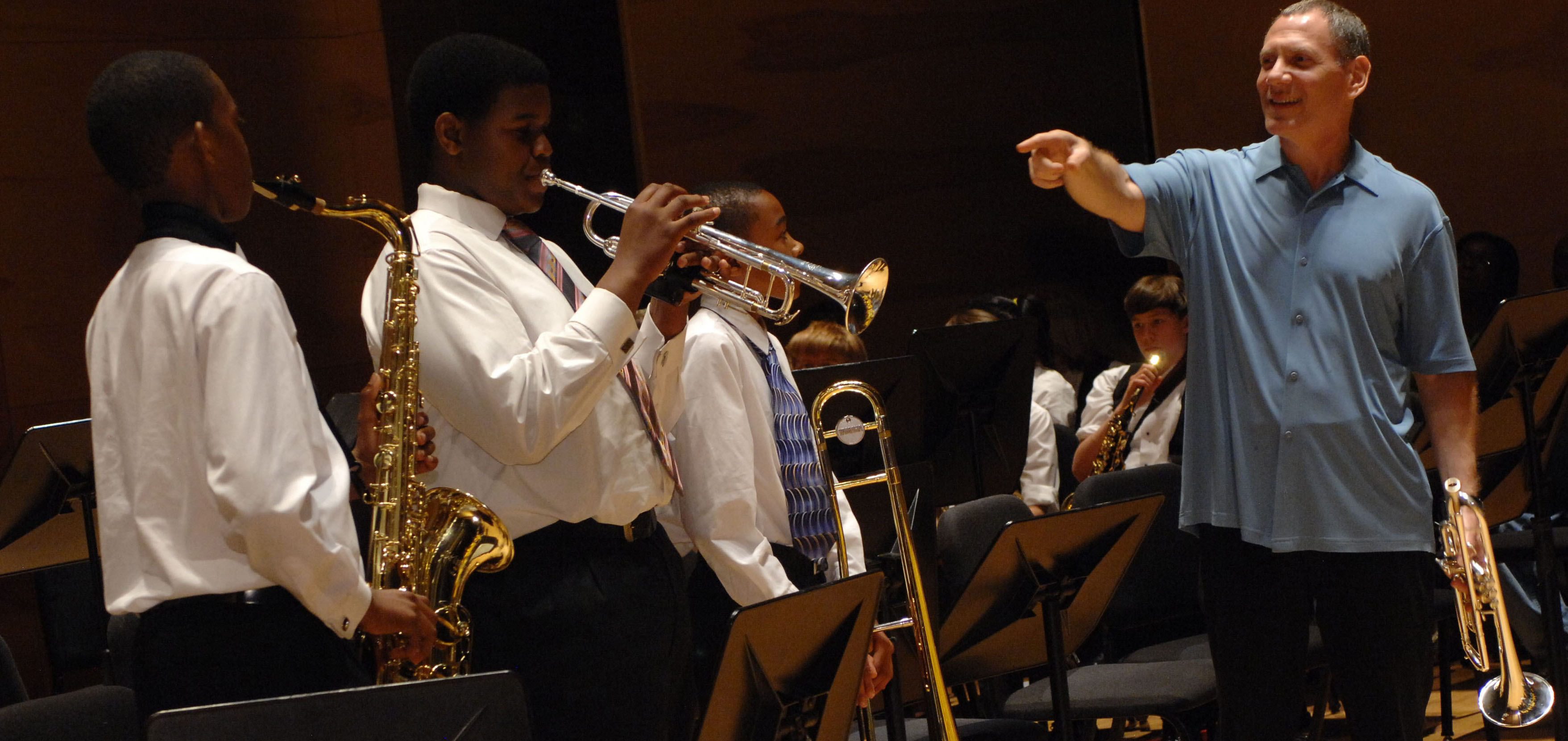 Education Outreach Picture